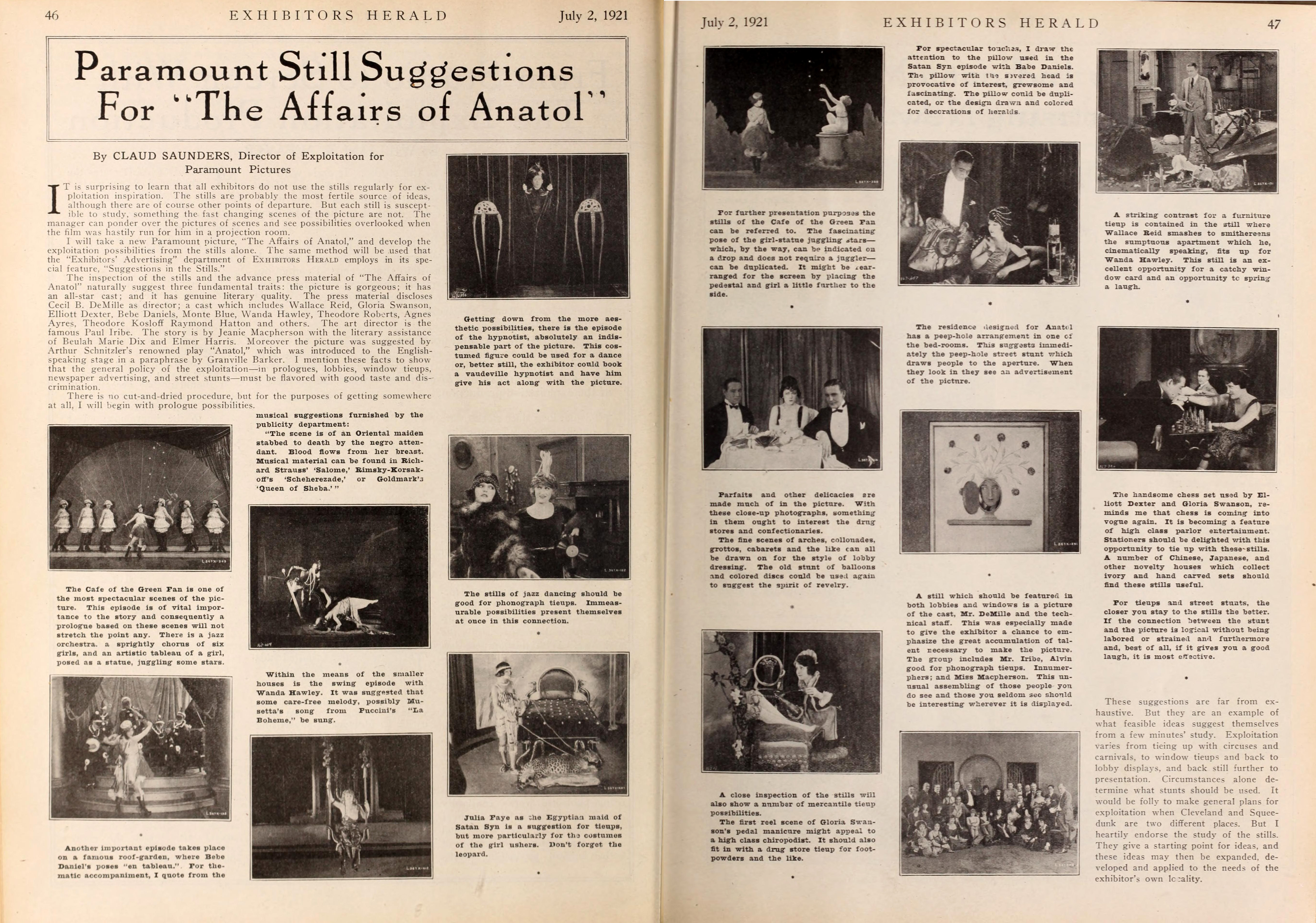 Suggestions of advertising uses of film stills for the film The Affairs of Anatol by Cecil B. DeMille in Exhibitors Herald